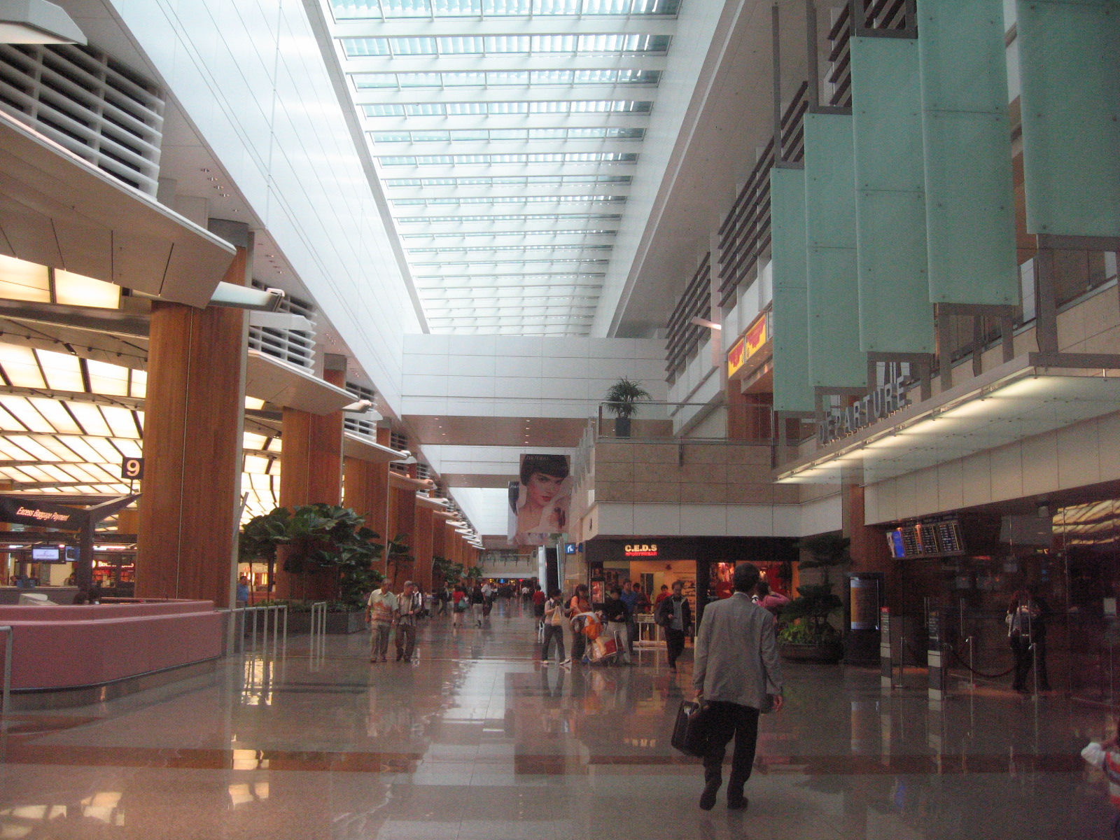 Singapore Changi Airport, Terminal 2, Departure Hall.